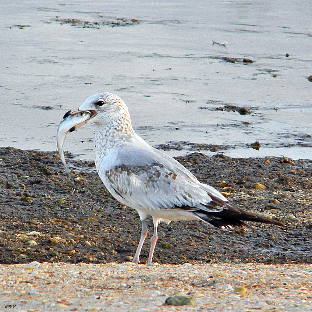 Seagull and mullet rehearsing for their local community theater's production of the play "Le Poisson Volant". Seagull gently placed Mullet back into the water when they were finished practicing.